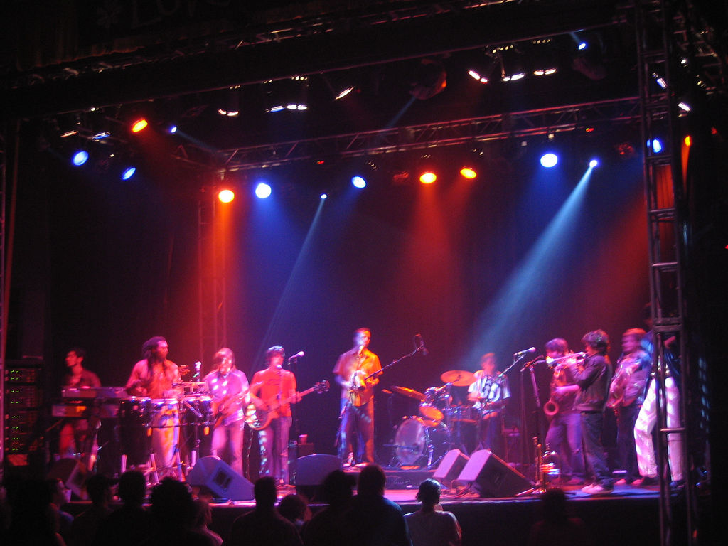 Antibalas Afrobeat Orchestra, live May 19, 2005